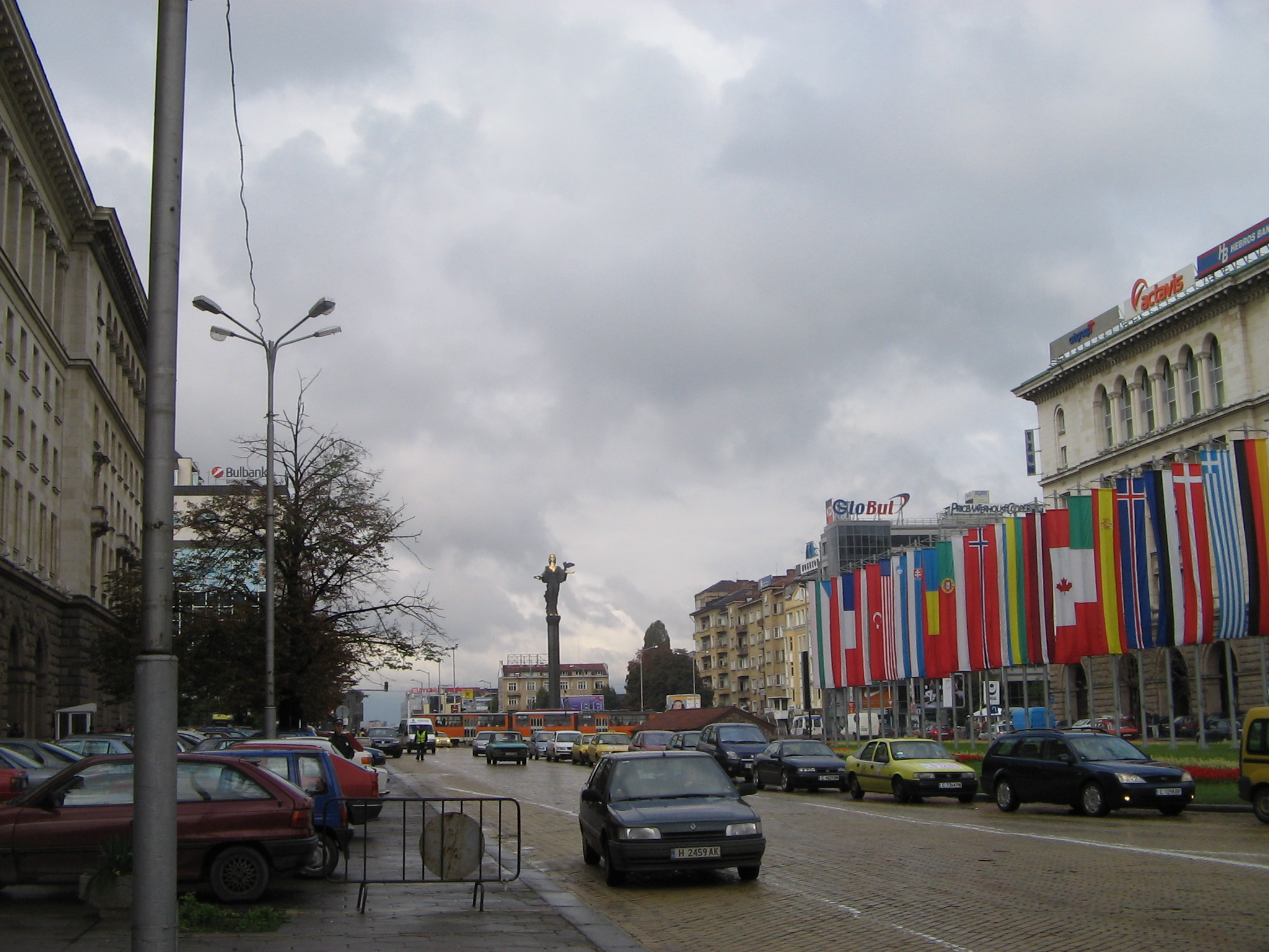 Nezavisimost (Independence) Square in Sofia, Bulgaria. On the left: Building of the Presidency. In the center: Statue of Saint Sofia On the right: The NATO Garden and the building of the Central Universal Store